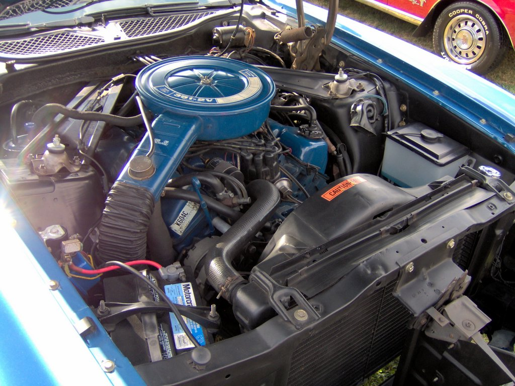 1973 Ford Mustang convertible 351-2V Cleveland. The 2V refers to the single 2-barrel carburettor - all Clevelands were 2-valve engines.